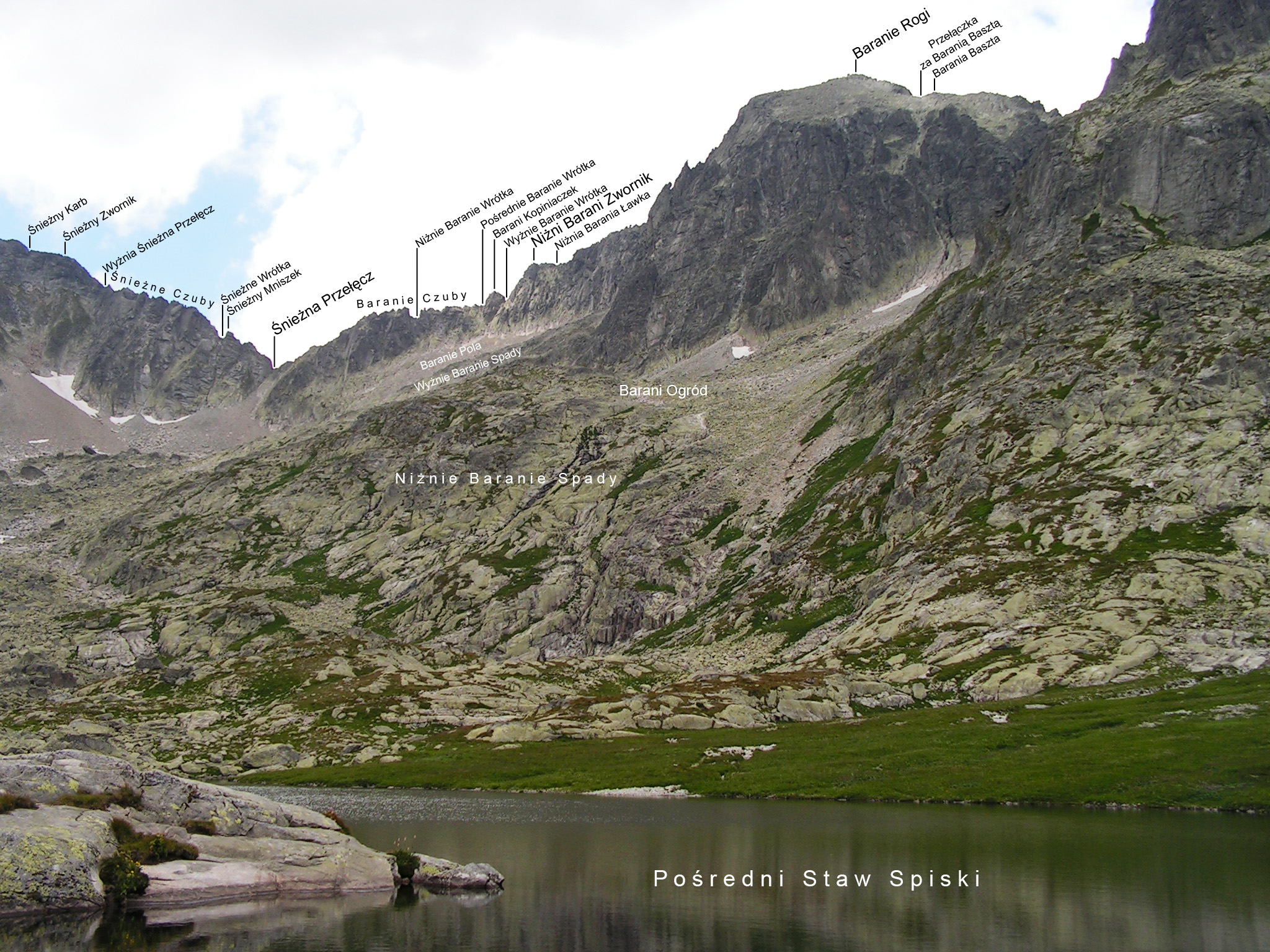 Baranie rohy seen from Kotlina Piatich Spišských plies (with Polish names)